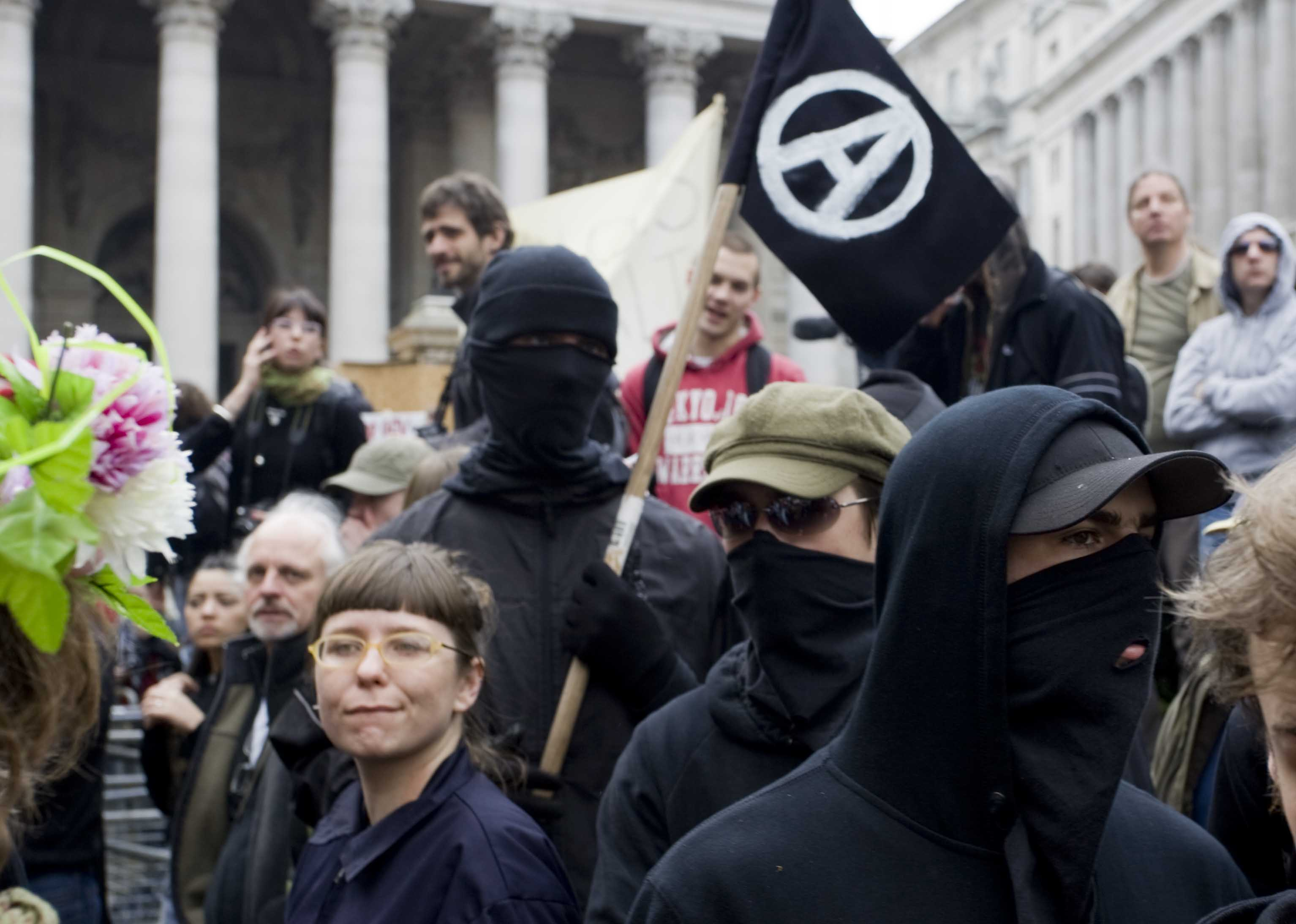 Masked and black clad Anarchist protesters at the G20 Meltdown protest in London on 1 April 2009